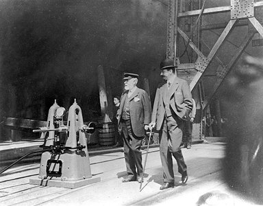 Bruce Ismay and William Pirrie inspecting RMS Titanic before is launch on 31 may 1911. Photograph was taken by Harland & Wolff shipyard official photographer, Robert Welch.